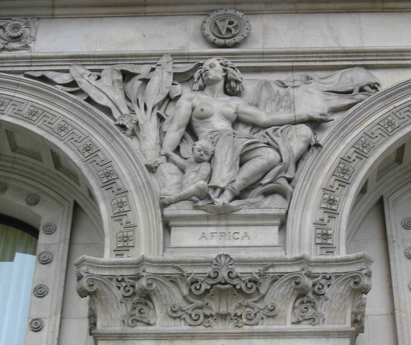 London